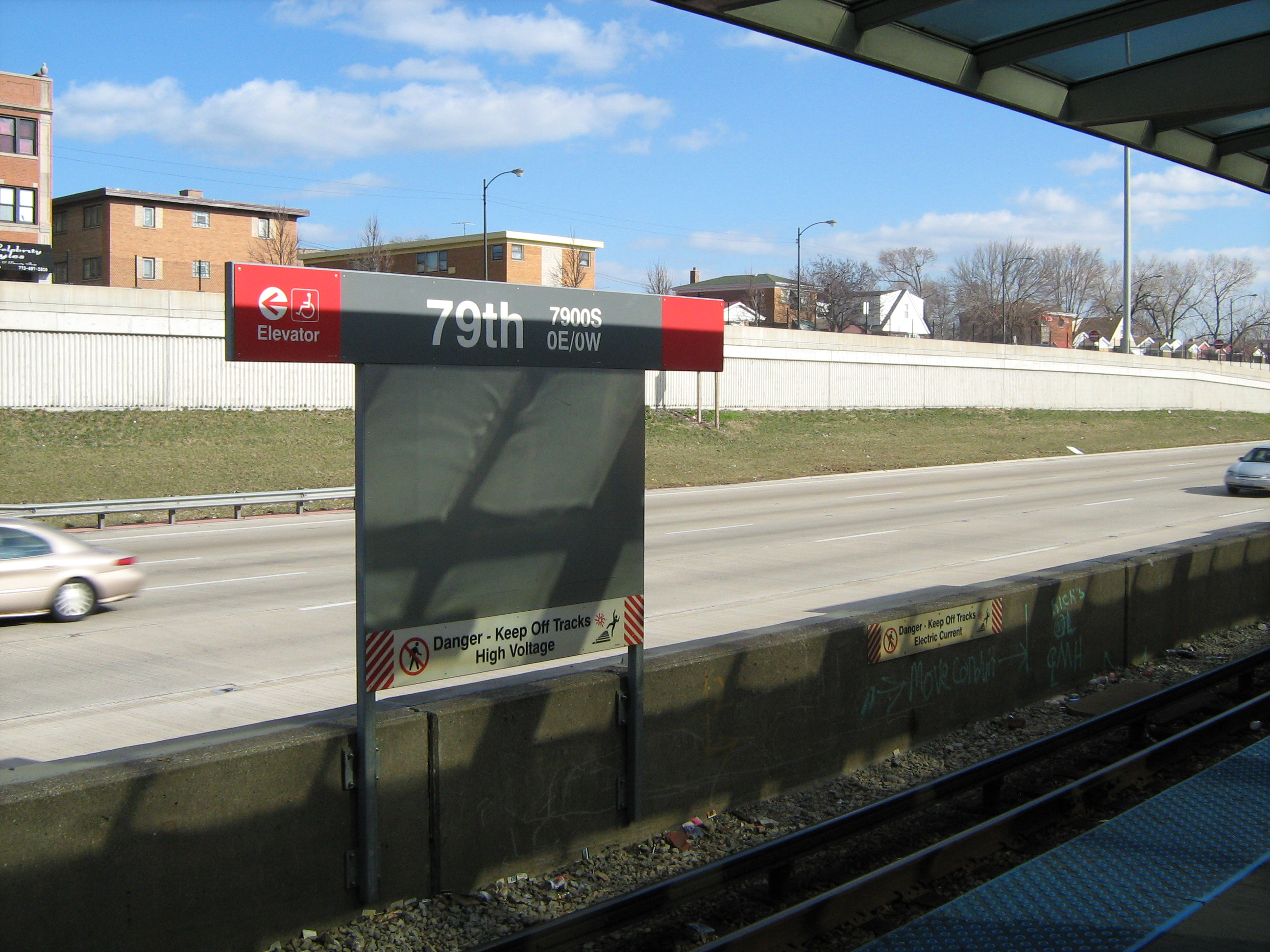 79th Street CTA Station